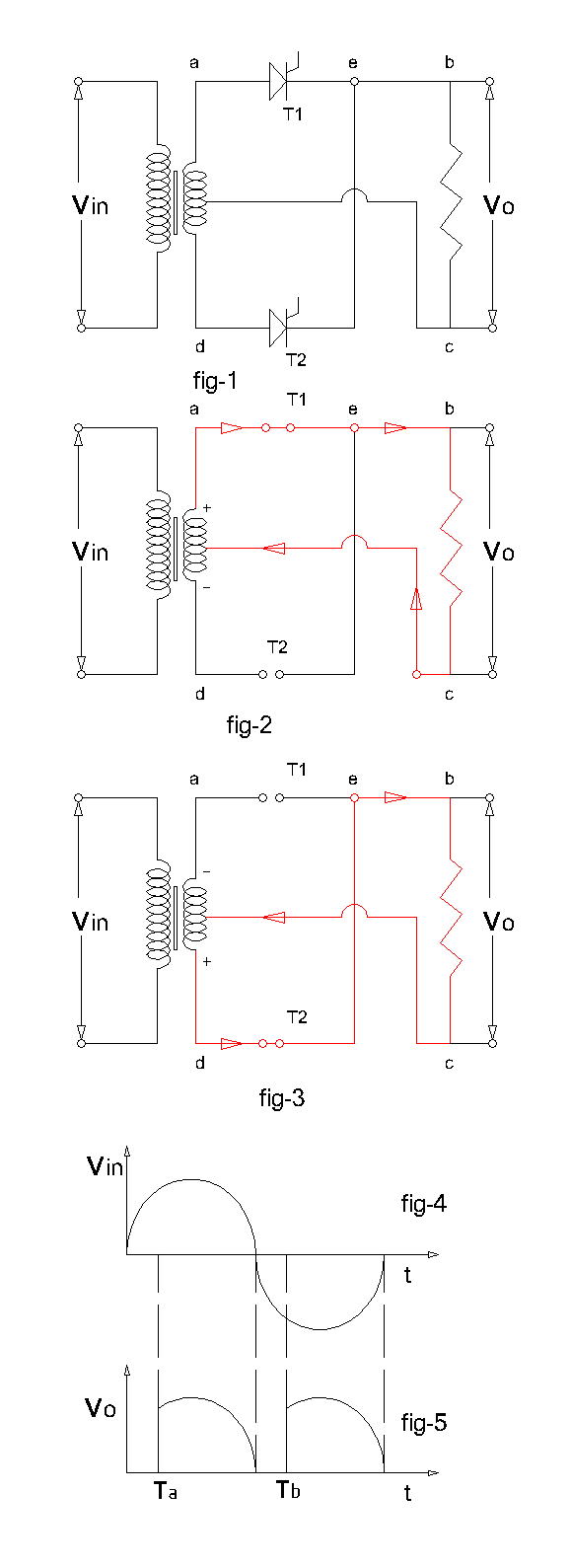 bridge rectifier(controlled)